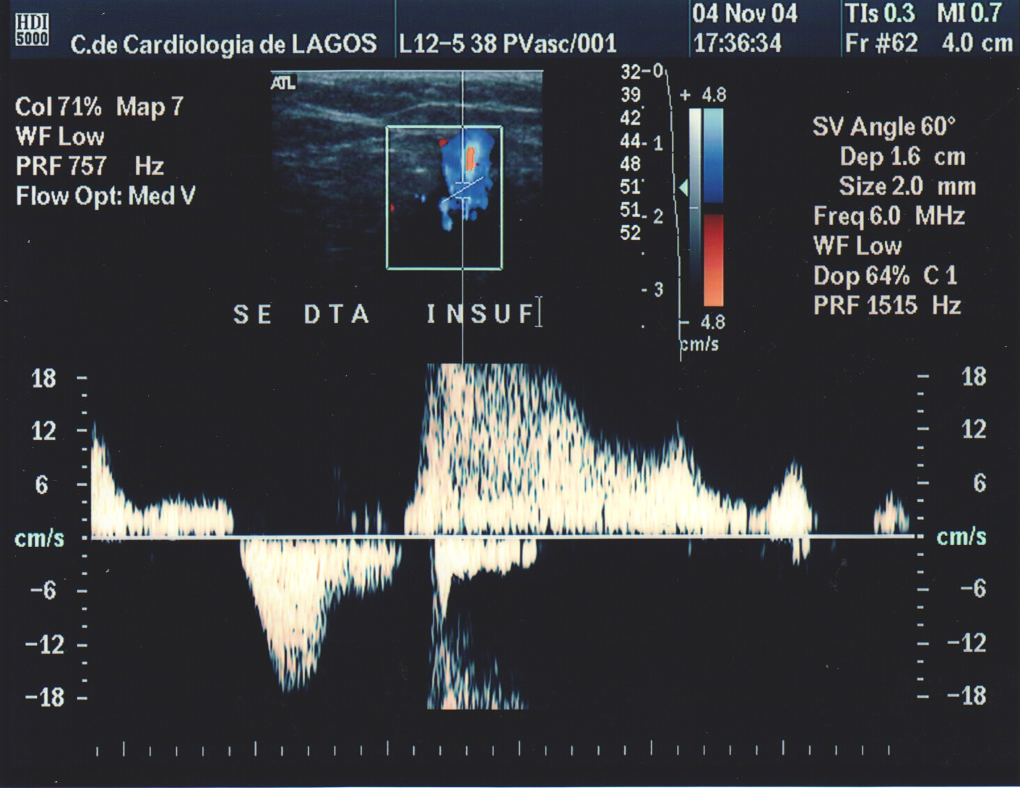 Little saphenous vein insuficiency